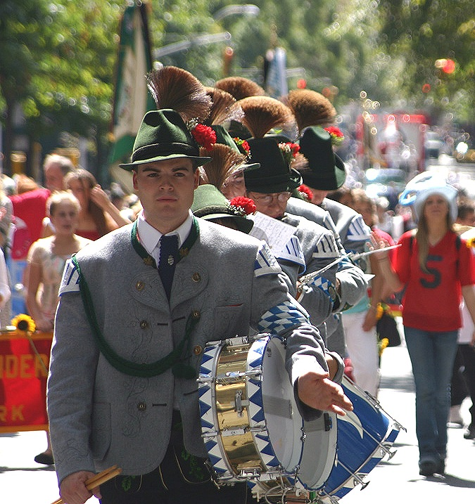 all rights by the cte... free to publish